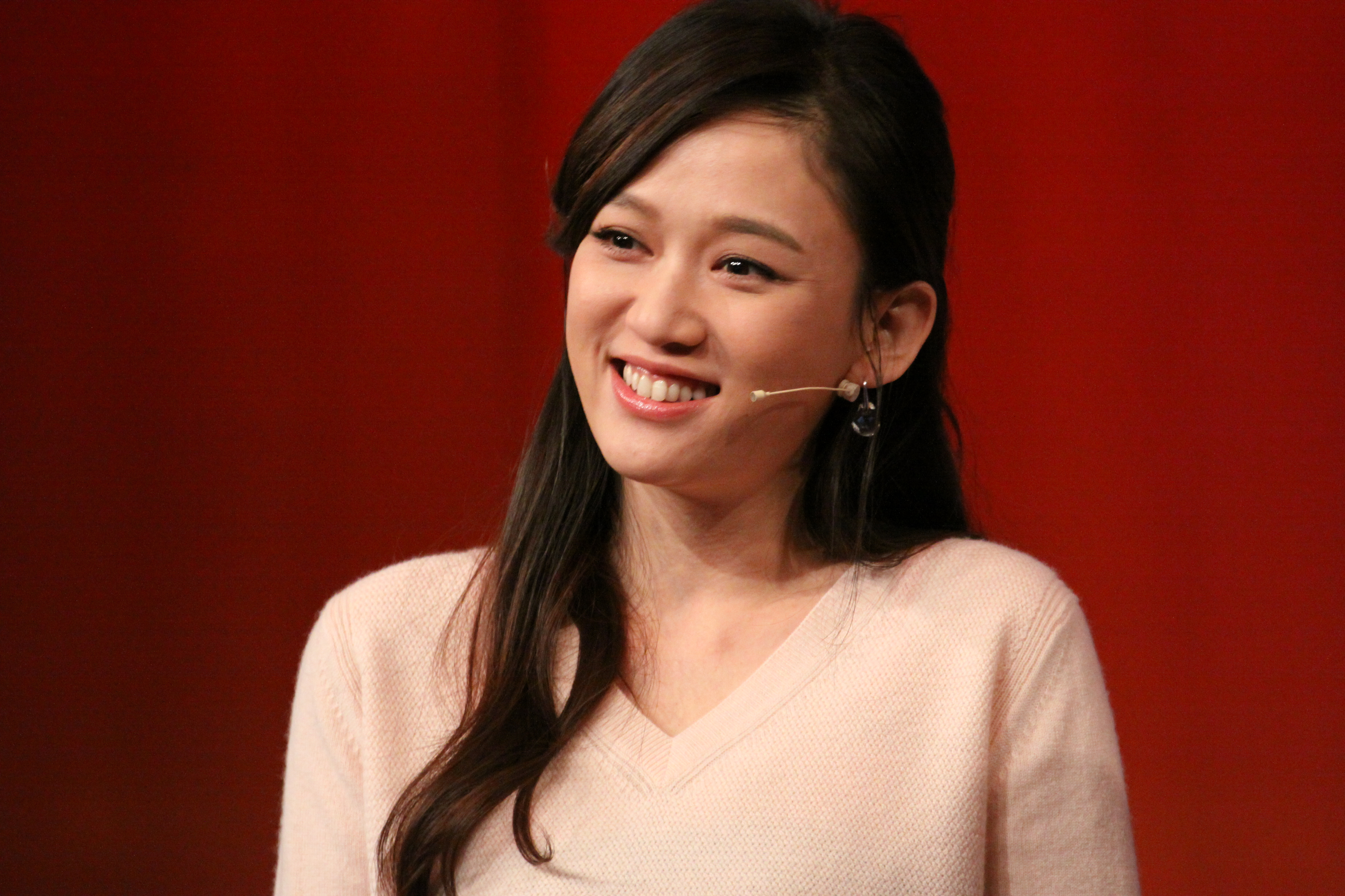 Joe Chen